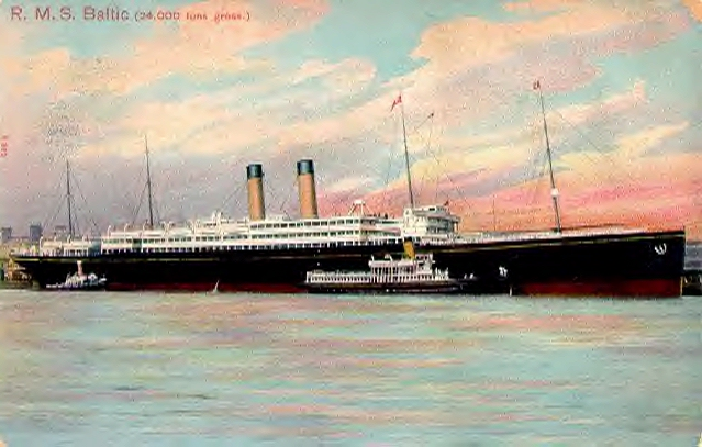 Beautiful image of RMS Baltic